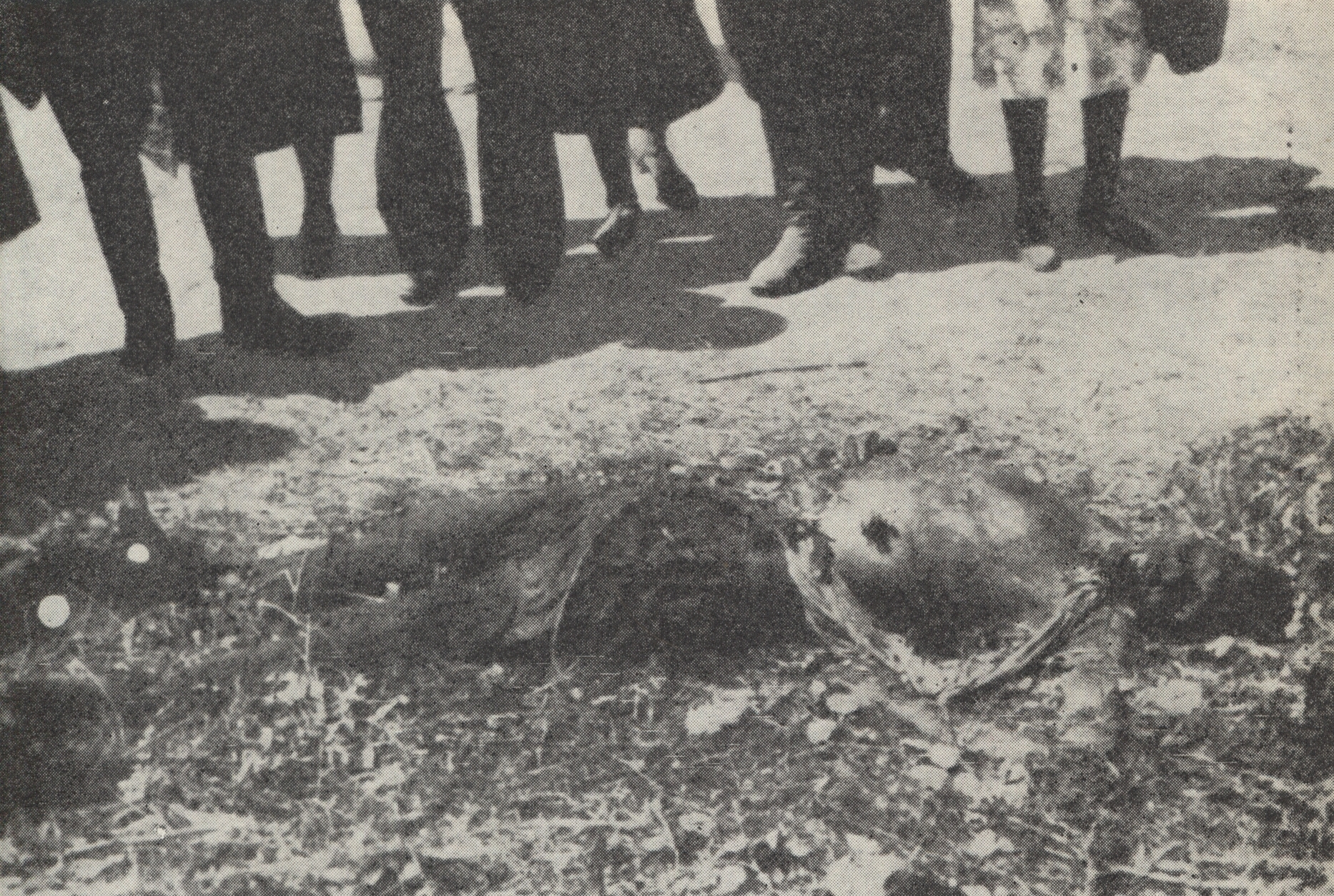 Polish village Szarajówka in Biłgoraj county burned by German occupants. On 18th May 1943 German gendarmerie and their Ukrainian collaborates destroyed Szarajówka and murdered 67 of its inhabitants. Most of the victims (58) were burned alive. This photo was taken after the massacre.